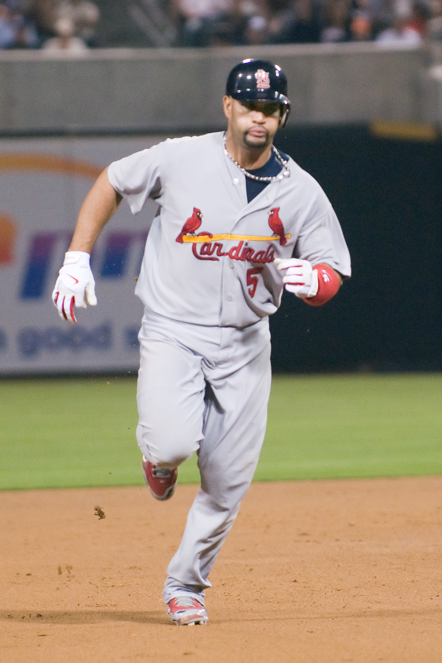 Albert Pujols running to third base in a game May 19, 2008 against the San Diego Padres at Petco Park in San Diego. ; move approved by Common Good